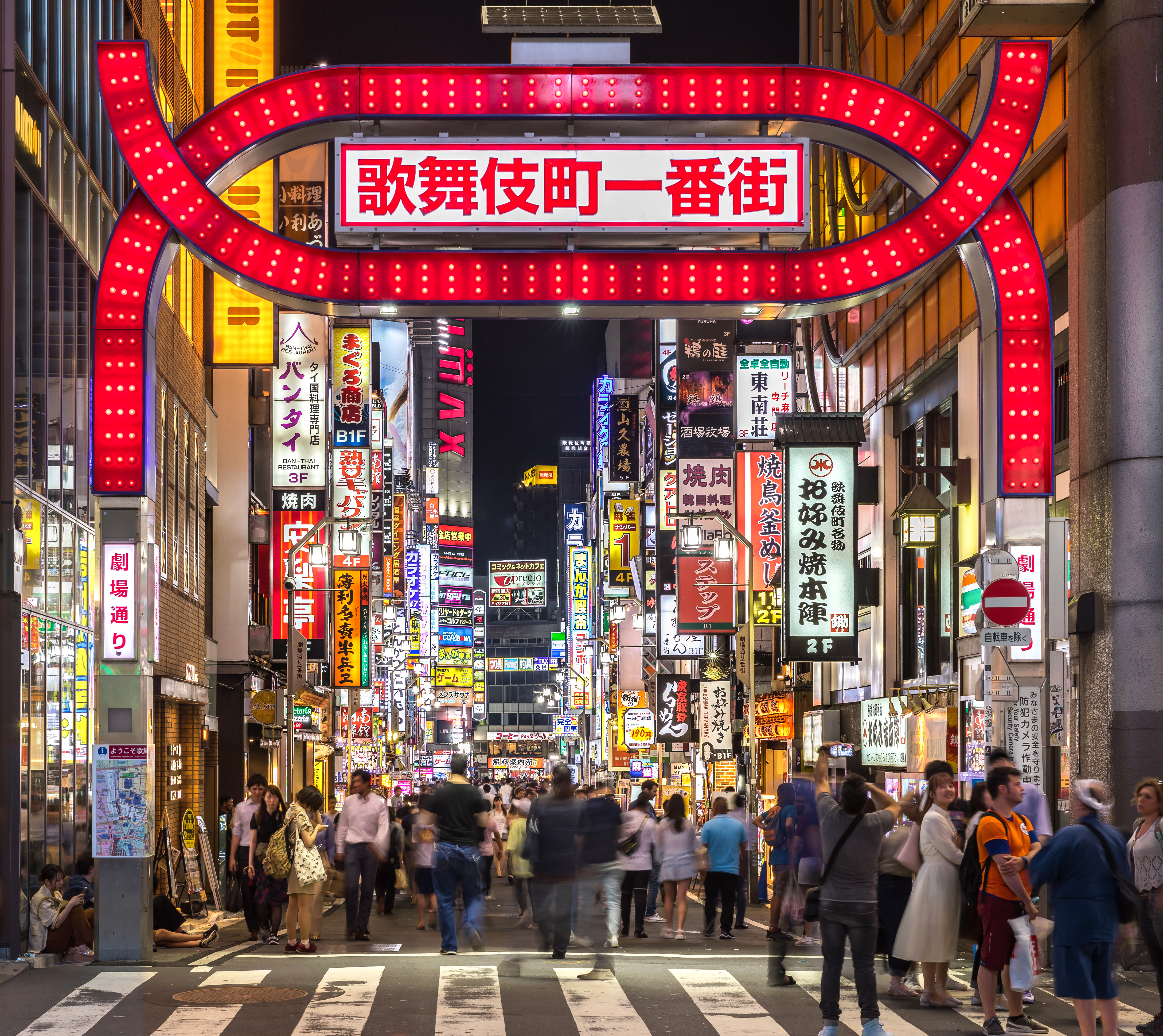 Kabukichō red gate and colorful neon street signs, entertainment and red-light district at night in Kabukicho, Shinjuku, Tokyo, Japan.